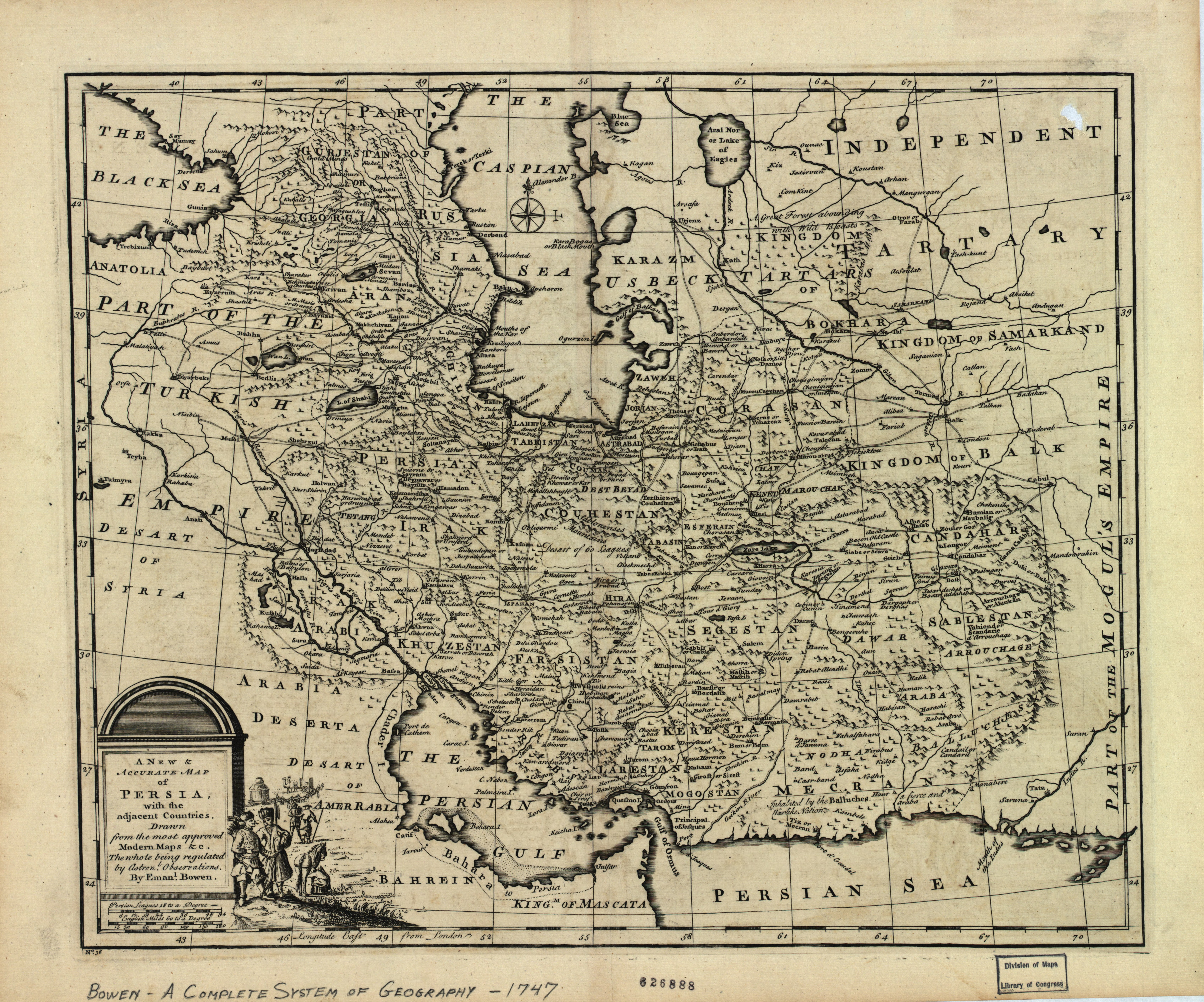 A new & accurate map of Persia, with the adjacent countries : drawn from the most approved modern maps &c, the whole being regulated by astronl. observations / by Emanl. Bowen.